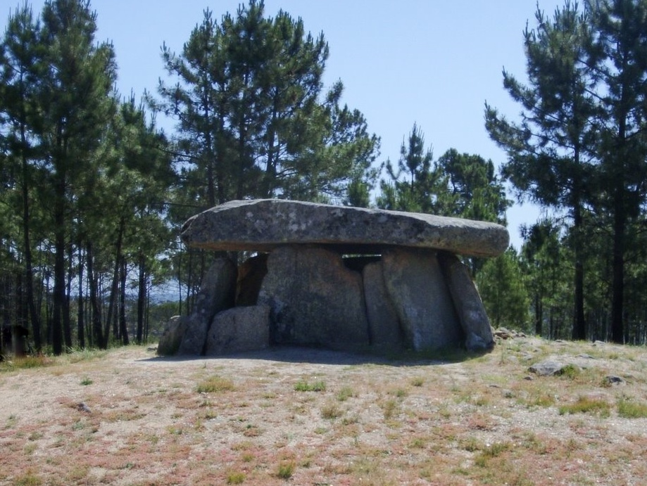 Orca dolmen, Lapa da Orca or Orca de Fiais da Telha. Located in the district of Viseu, Portugal, the nearest village is Penedono and the nearest village is Fiais da Telha.